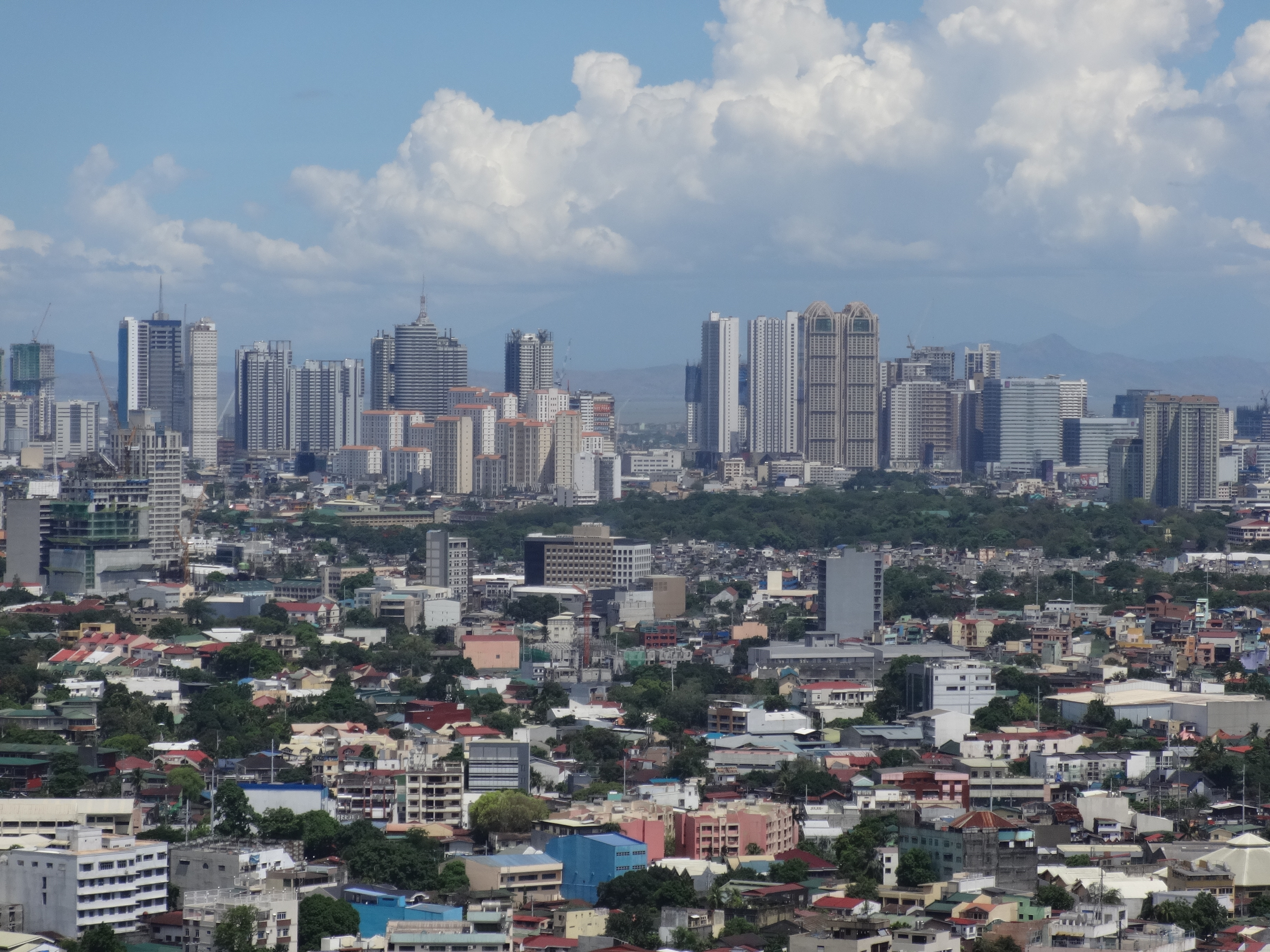 Mandaluyong skyline as seen from from Mezza 2 Residences in Quezon City